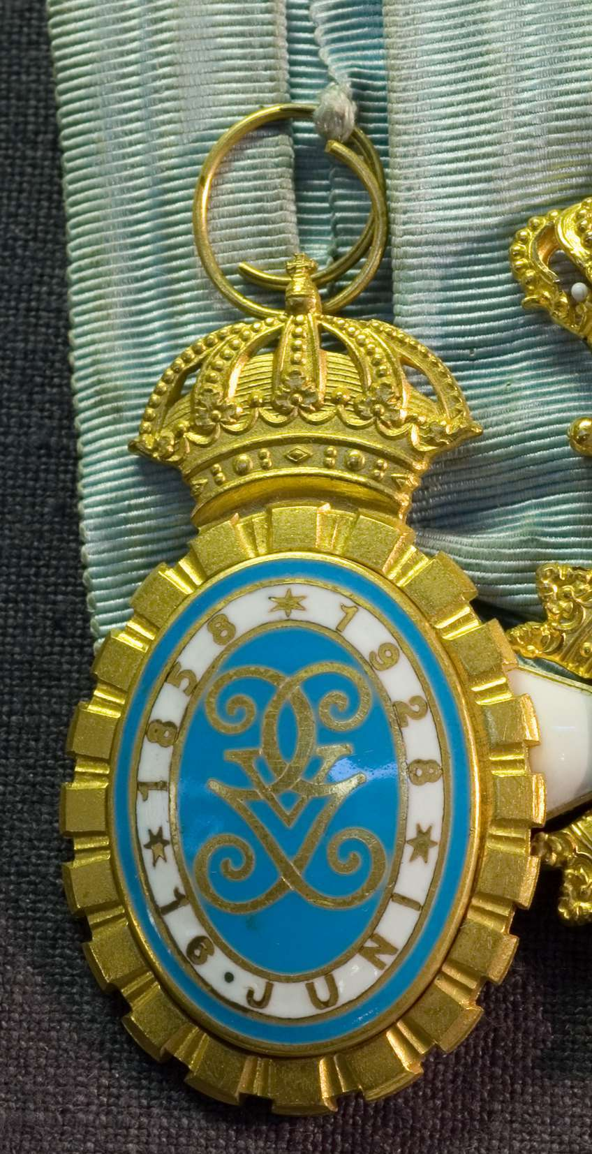 Commemorative medal of King Gustav V of Sweden (1858-1928). Medal in the collection of Armémuseum, Stockholm, via DigitaltMuseum.